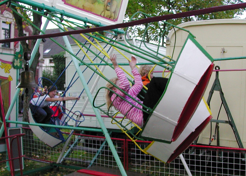 Swingboat